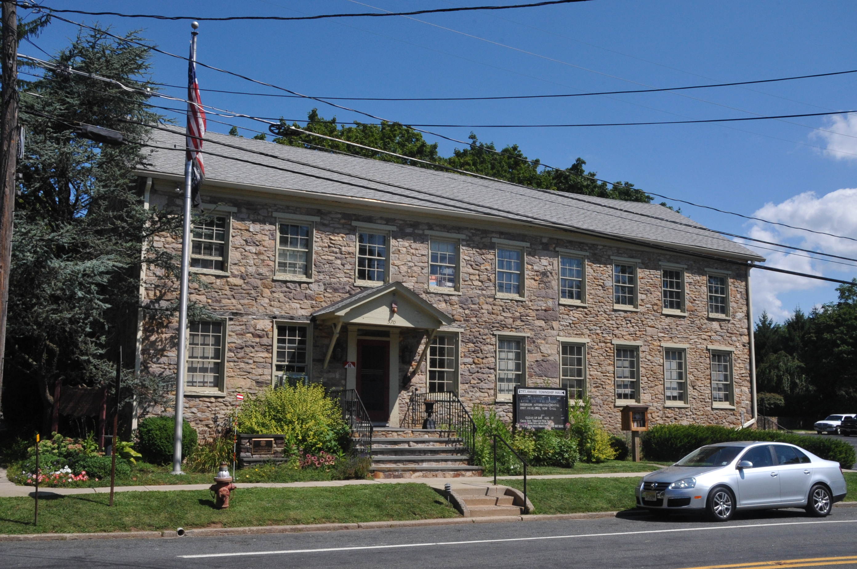 Delaware Township Municipal Building started in the late 18th century as a tavern and later a hotel. It became the municipal building in the mid 20th century.